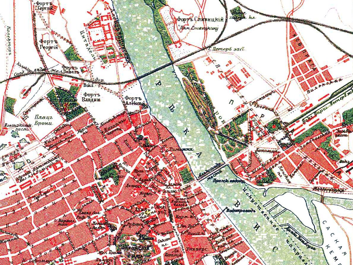 Illustration from Brockhaus and Efron Encyclopedic Dictionary (1890—1907). The Bridges over the Vistula in Warsaw.